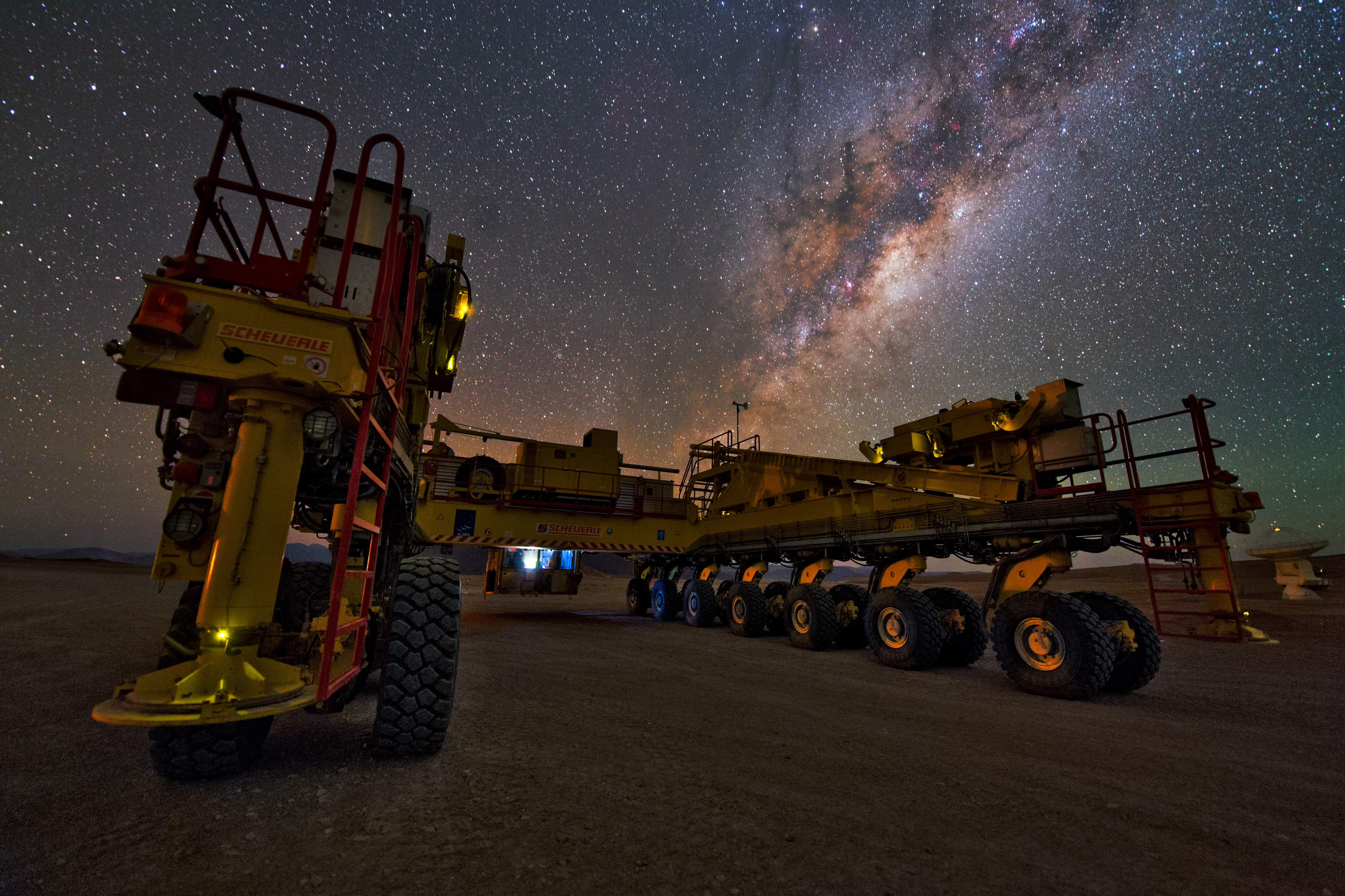 Don’t be fooled! This isn’t a futuristic new Mars rover — though the harsh terrain of the Chilean Atacama Desert could easily be mistaken for Mars. This 20-metre-long, 10-metre-wide and 28-wheeled vehicle is an ALMA transporter known as Otto, pictured bathing beneath the beauty of the Milky Way! This mammoth machine was built in Germany. It was specially designed to transport ALMA antennas from the Operations Support Facility, located at 2900 metres above sea level, up to the Chajnantor Plateau, a site some 5000 metres above sea level and to move the antennas between the different available positions. Otto tips the scales at 130 tonnes, and can clock a top speed of 12 kilometres per hour while carrying an antenna — it certainly won’t be breaking any land speed records! Luckily, speed is not the priority during this delicate process. Safety and precision are paramount. Despite its bulk and power, this bright yellow beast can position an antenna to an accuracy of just a few millimetres, ensuring that every antenna is placed on its foundation pad perfectly. The ability to reposition its 66 antennas is part of what makes ALMA so powerful. You can see Otto in action in ESOcast 56: Gentle Giants in the Desert.